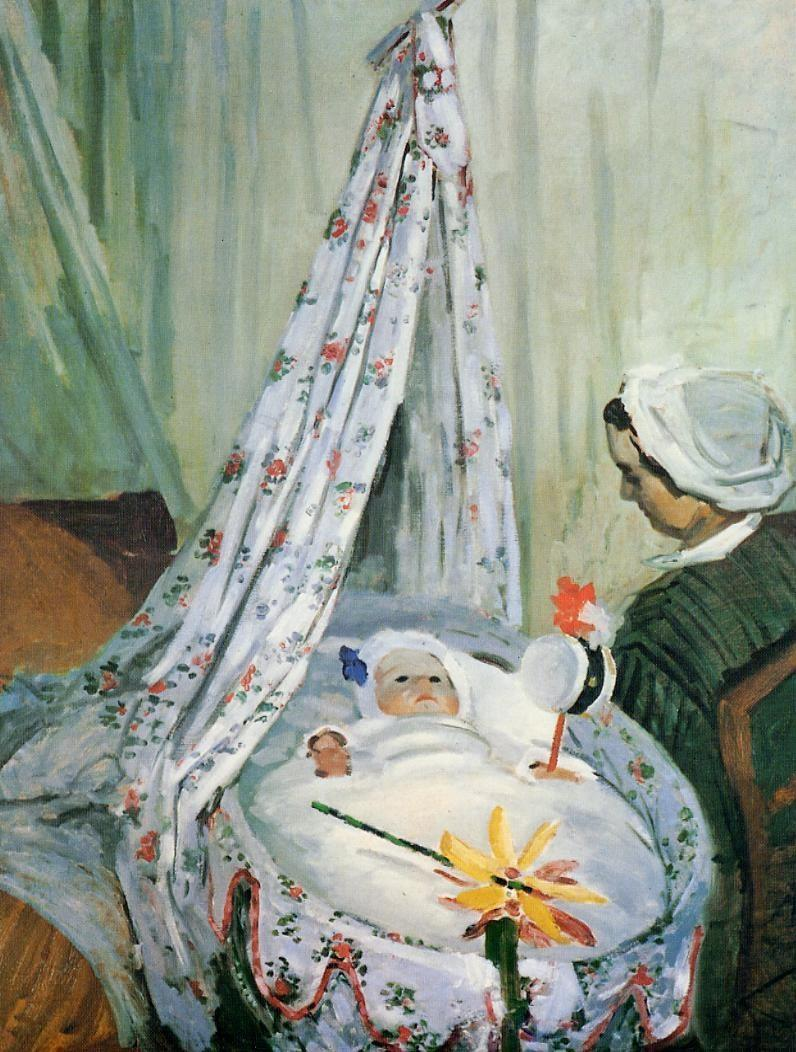 Claude Monet, Jean Monet in His Cradle, made when Jean Monet was about four months old and the woman overlooking him is believed to be Julie Vellay, companion of Camille Pissaro